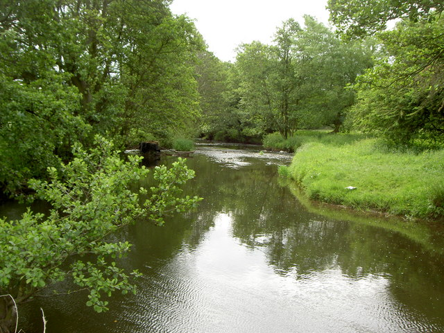 River Alyn near Hope, near to Caergwrle, Flintshire/Sir y Fflint, Wales. The River Alyn is a river between Llandegla and its confluence with the River Dee. At this point, the Alyn is meandering and at times is prone to flooding.